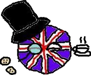 Derivative of File:Britball.jpg with a transparent and minimal size background.